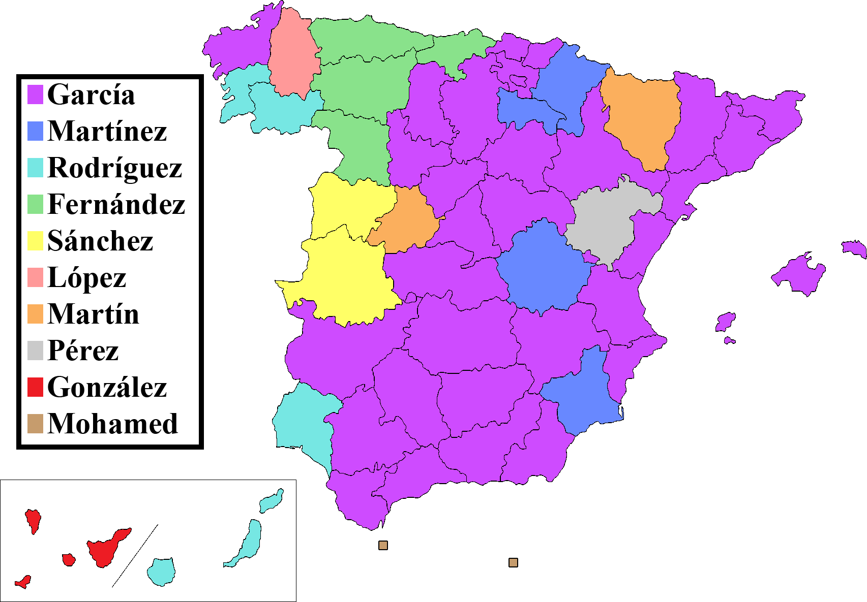 This map shows the most common surname in every Spanish province. Made by myself using data from the National Institute of Statistics, released in November 2006 and available at [1] . If you can improve this map, please do so.